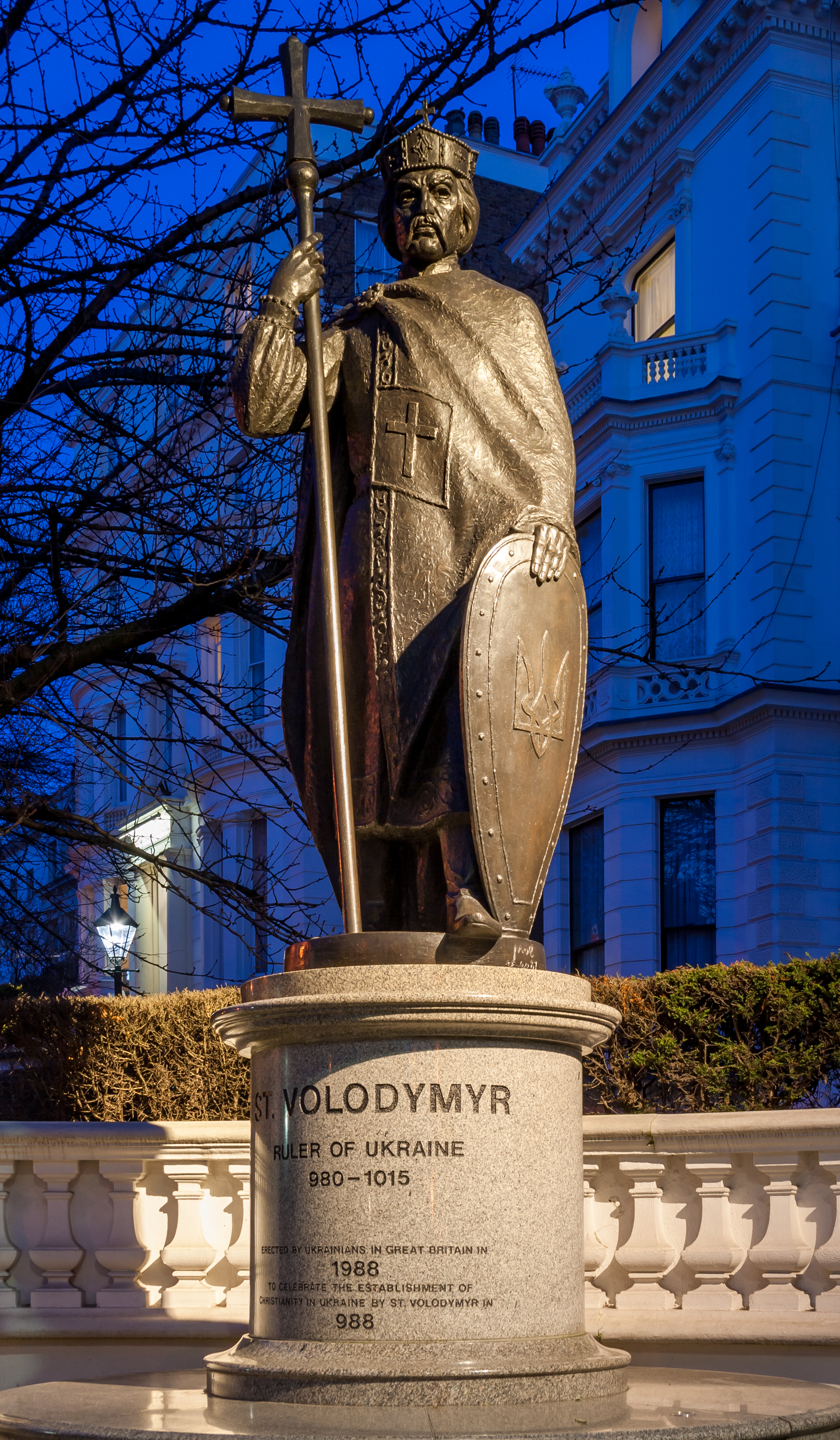 Statue - "St Volodymyr - Ruler of Ukraine, 980-1015. Erected by Ukrainians in Great Britain in 1988 to celebrate the establishment of Christianity in Ukraine by St Volodymyr in 988." Holland Park W11, London